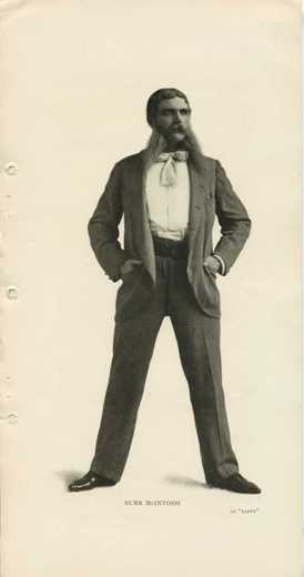 Burr McIntosh in Trilby in 1905.